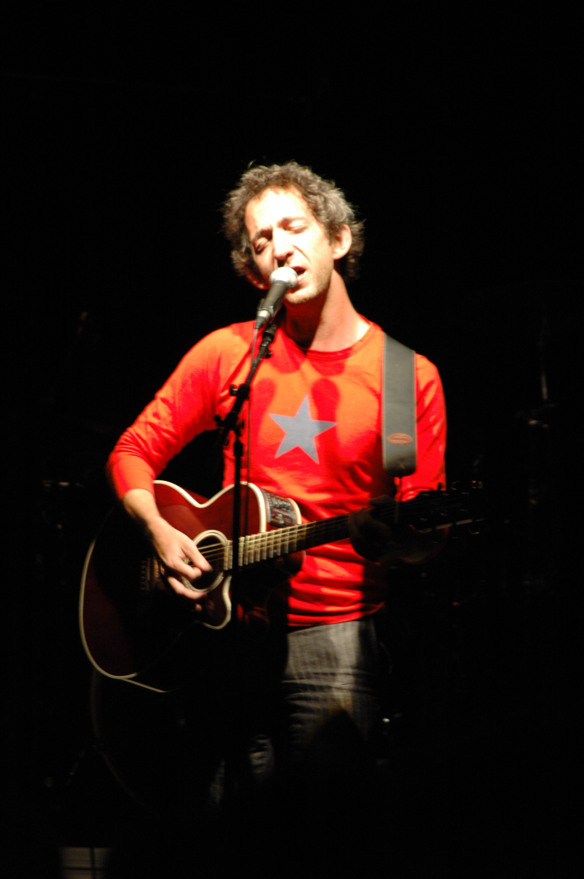 Arthur H in concert